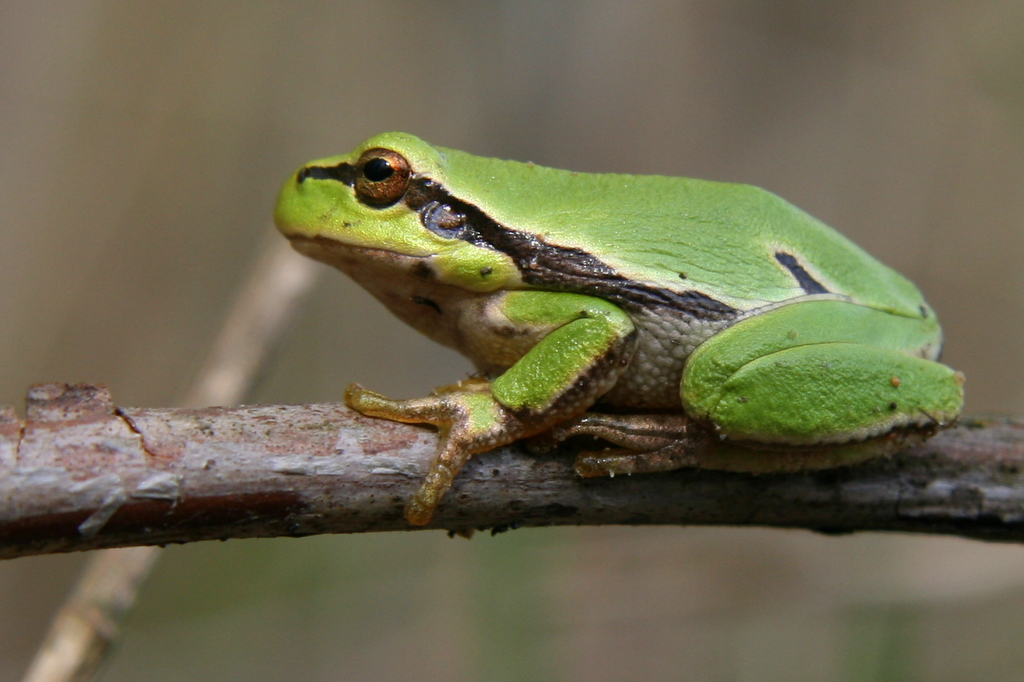 European tree frog